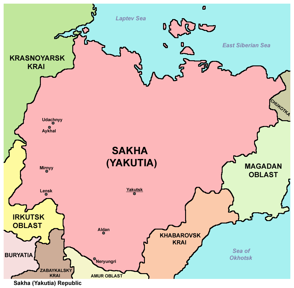 Map of the Sakha (Yakutia) Republic.